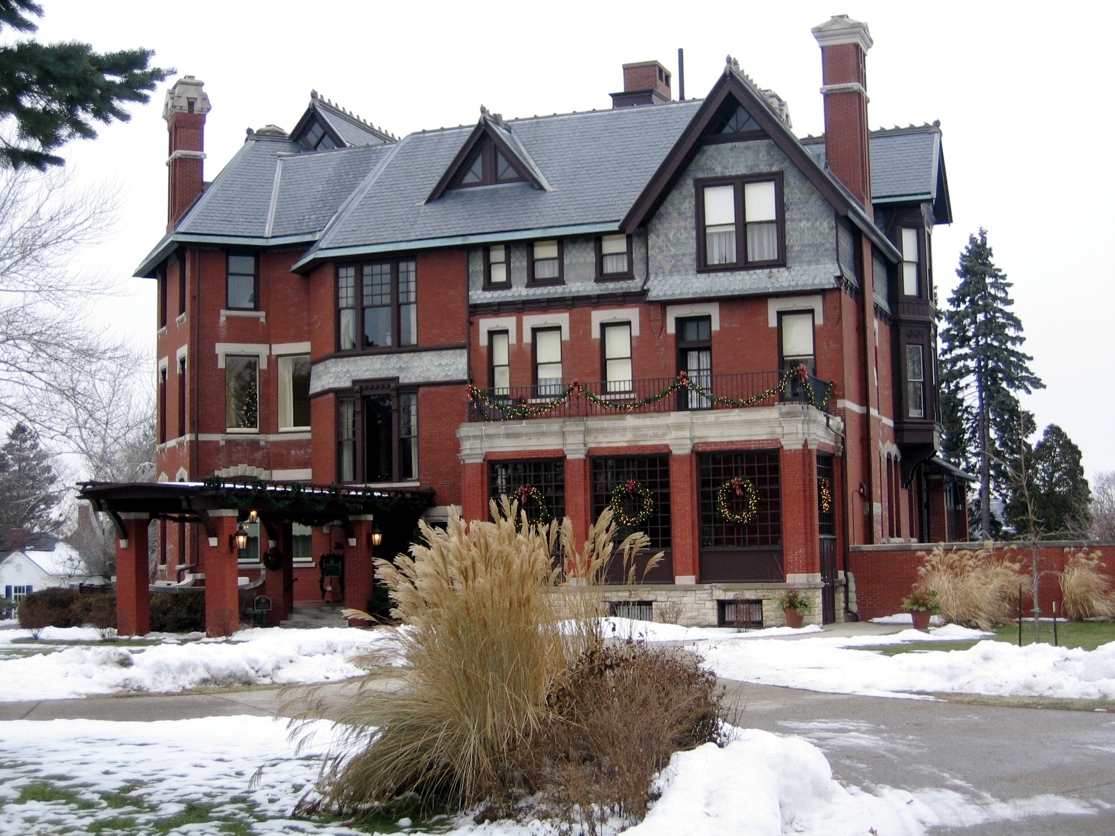 Brucemore estates in Cedar Rapids, Iowa, was built between 1884 and 1886. This picture was taken in the winter of 2005.